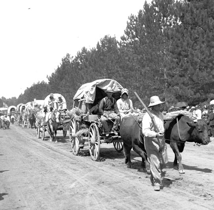 Re-enactment of Mormon pioneers in the 1912 Pioneer Day Parade at Liberty Park, Salt Lake City, Utah. Photographer Shipler Commercial Photographers; Shipler, Harry Commercial photo taken on assignment, published circa 1912 URL